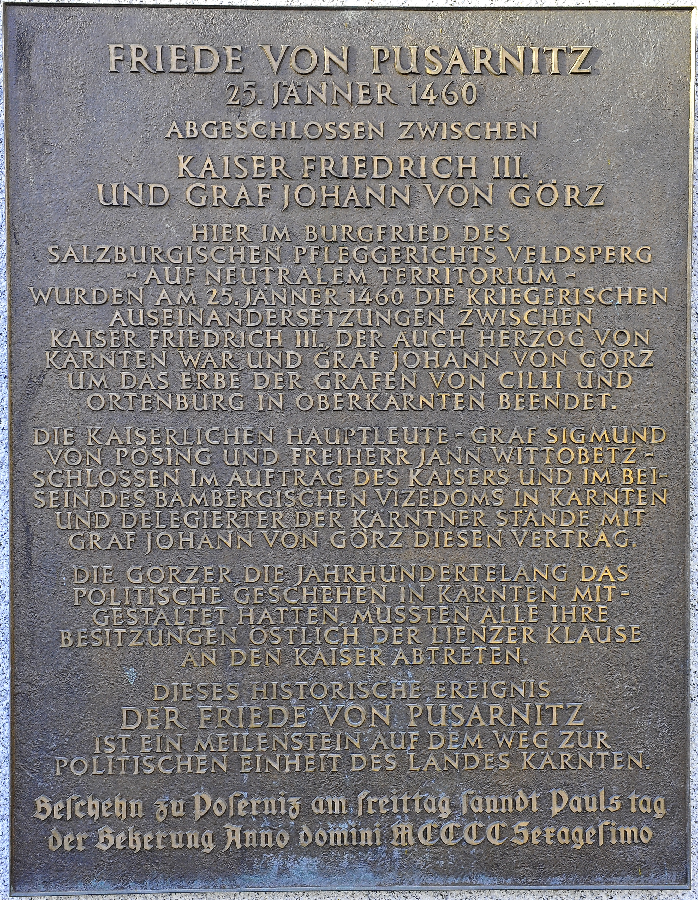 Memorial plaque for the "Peace of Pusarnitz" (January 25th, 1460) at Pusarnitz, municipality Lurnfeld, district Spittal an der Drau, Carinthia / Austria / EU